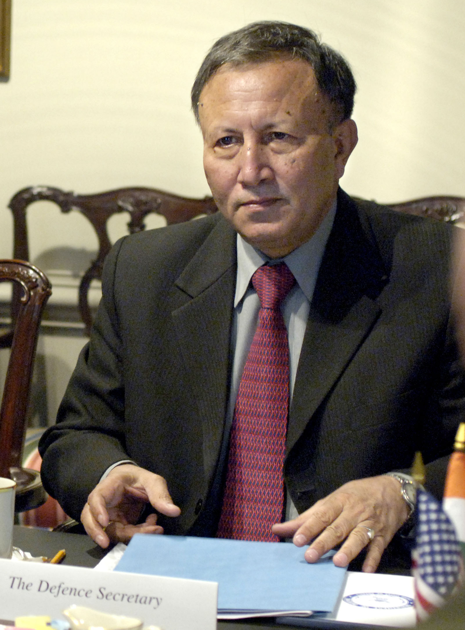 Cropped from the original to illustrate the subject.